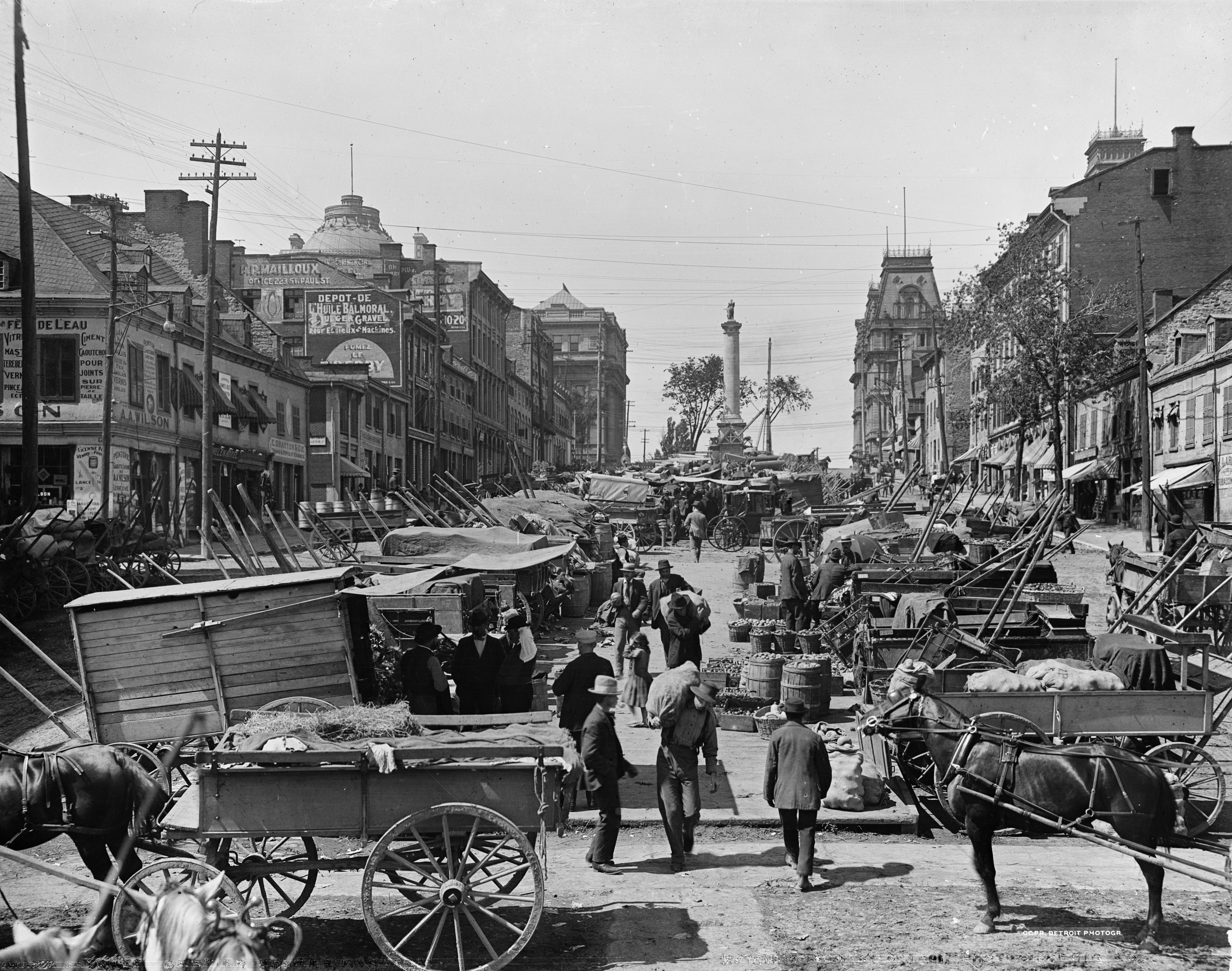 Jacques Cartier Square, Montreal, Quebec, Canada